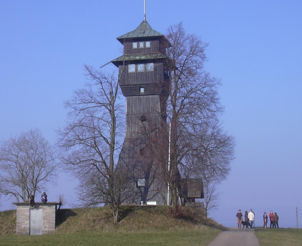 Hagbergturm, a view tower near Gschwend, Germany